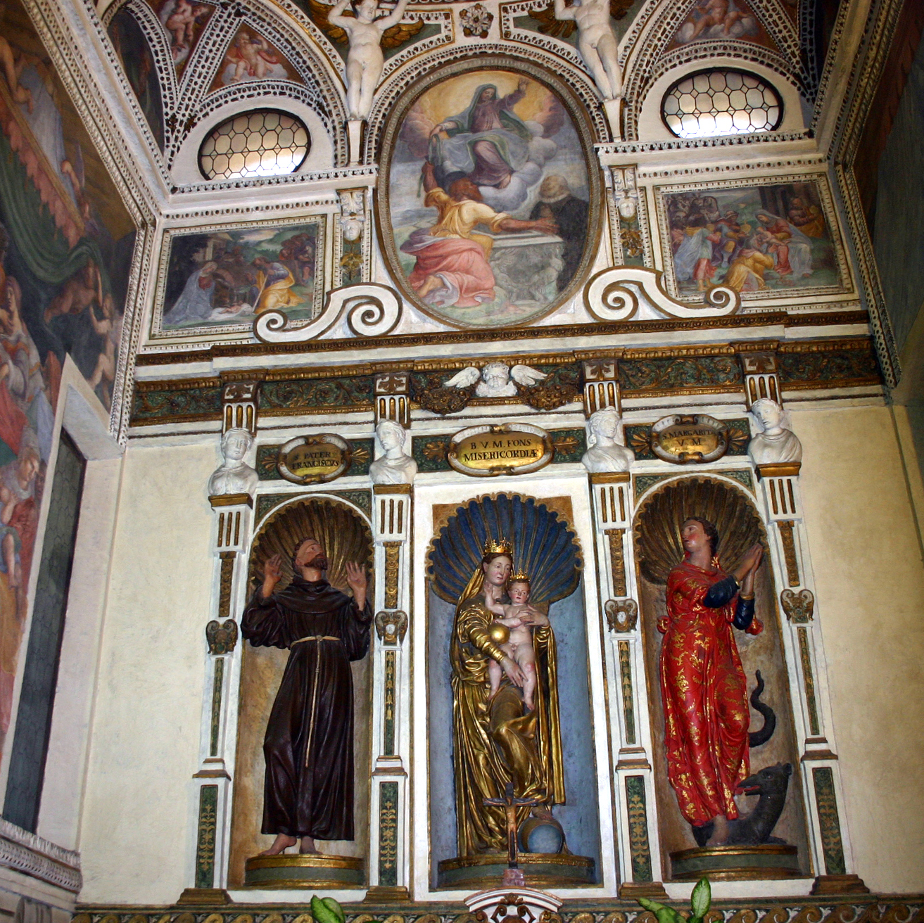 16th century anonymous sculptor: Madonna and Child between Saint Francis of Assisi and Saint Margaret of Antioch, painted stone statues in the "Cappella della Misericordia" chapel in the left-hand transept of Sant'Angelo church in Milan, Italy. Picture by Giovanni Dall'Orto, April 11 2007.